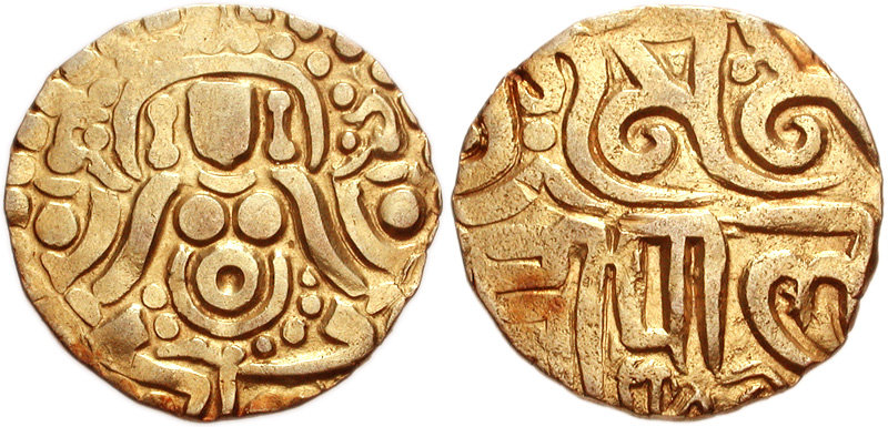 INDIA, Medieval. Palas. Mahipala I and later. Circa 988-1161